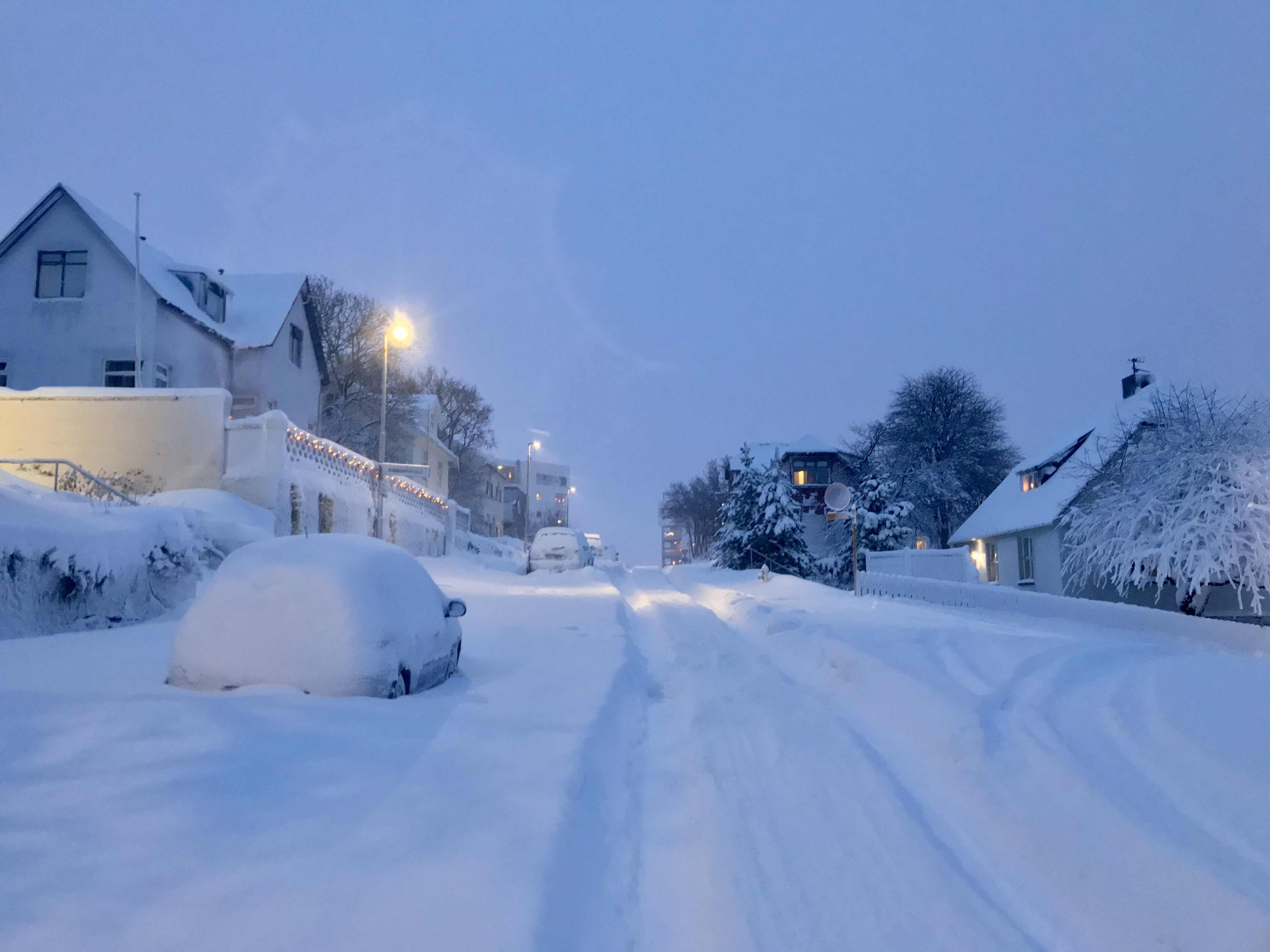 Brekkugata street in Akureyri after heavy snowfall, Iceland. December 2019